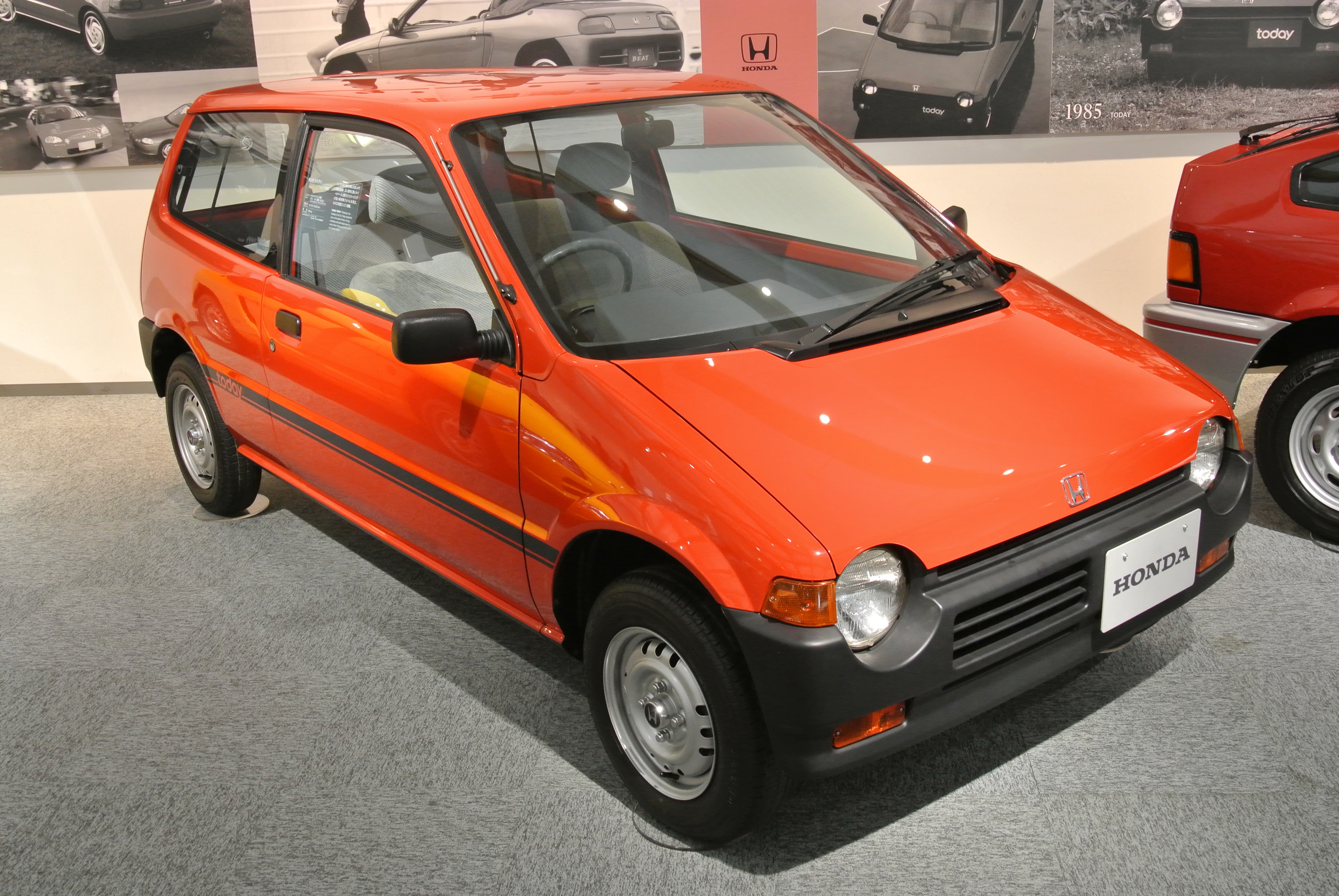 Honda TODAY in the Honda Collection Hall.